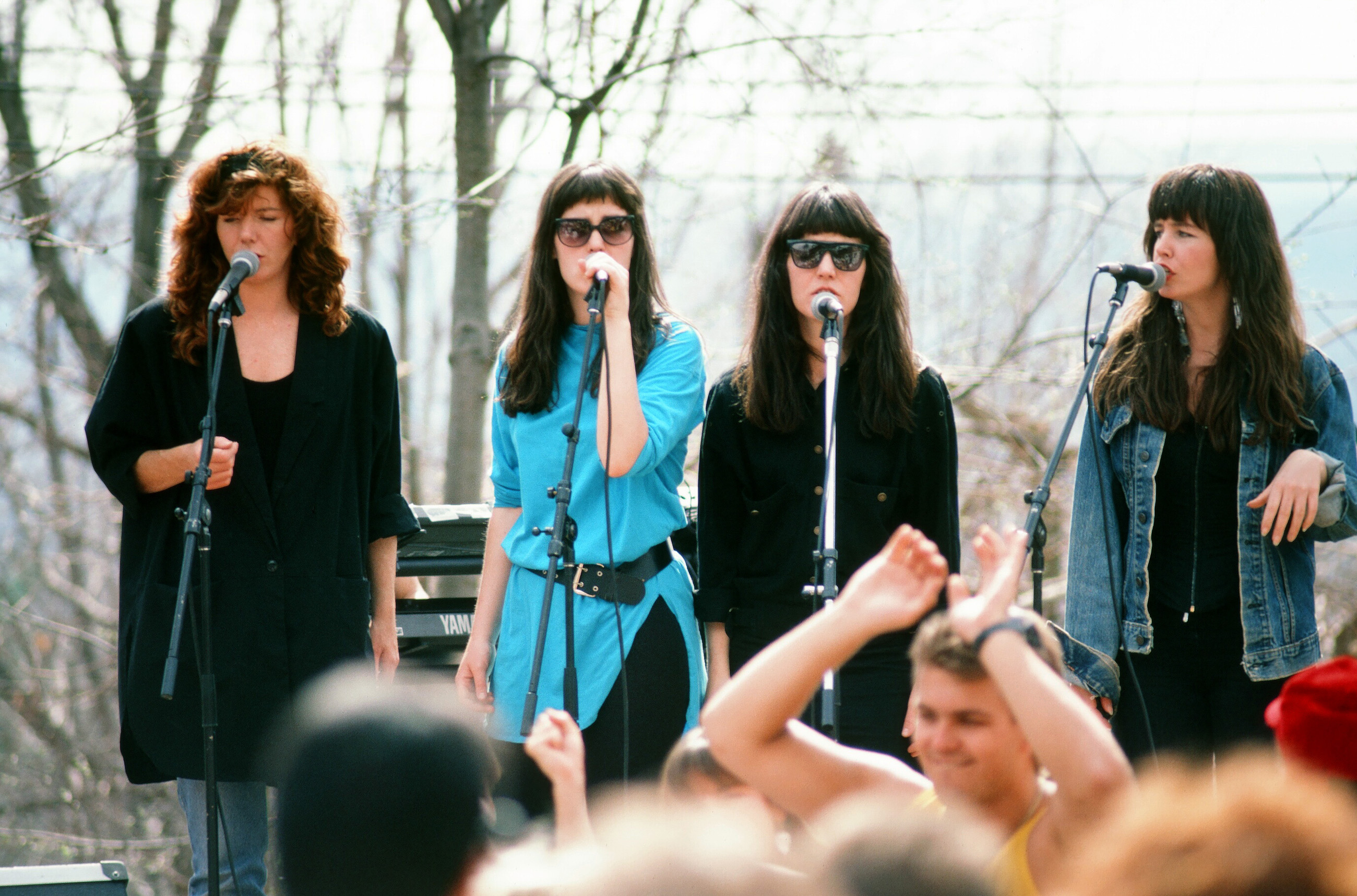 The Burns Sisters play their hometown of Ithaca, NY. April 1987.